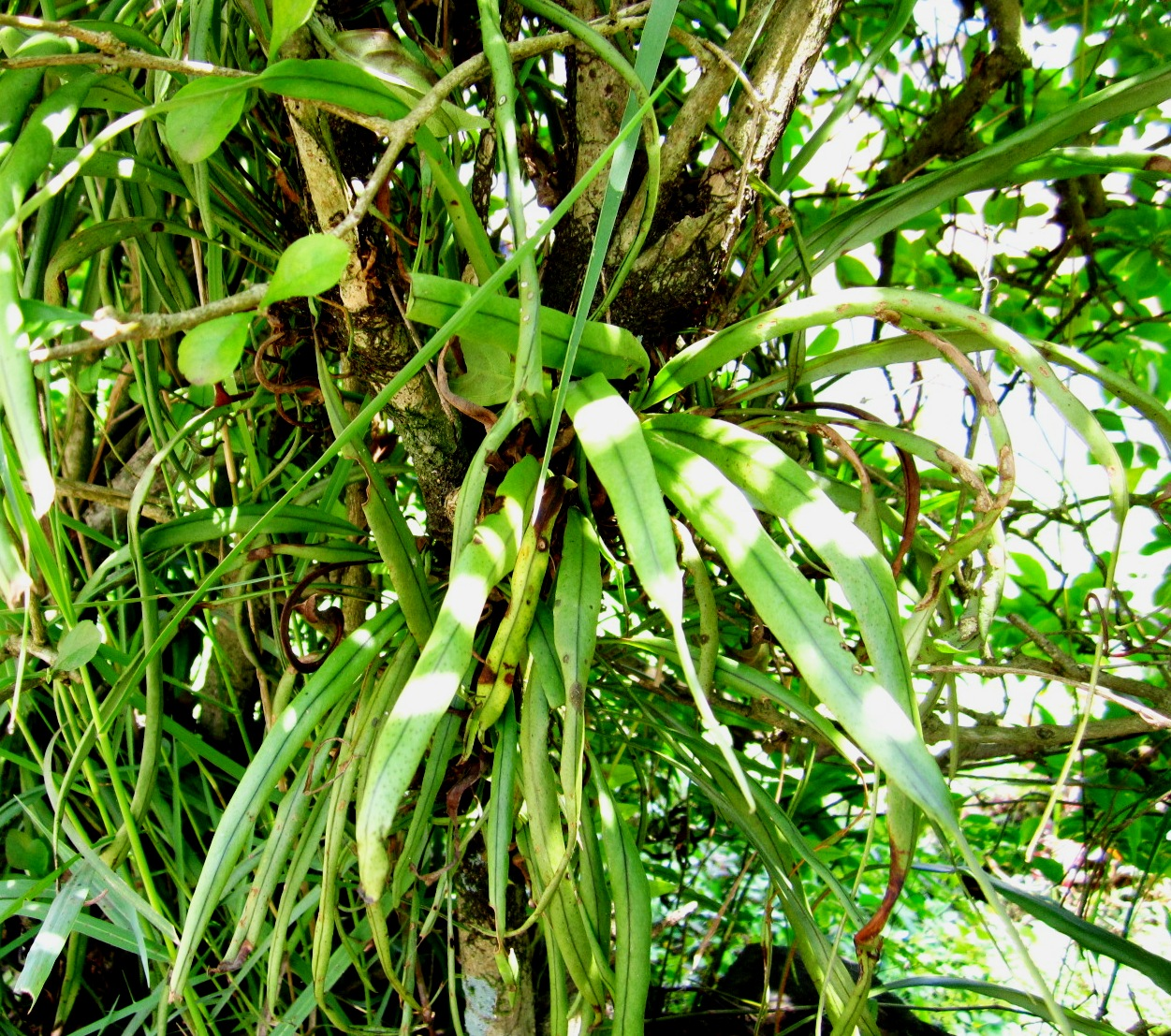 Belvisia spicata syn. Hymenolepis revoluta at Pagilaran tea estate, Batang, Central Java.